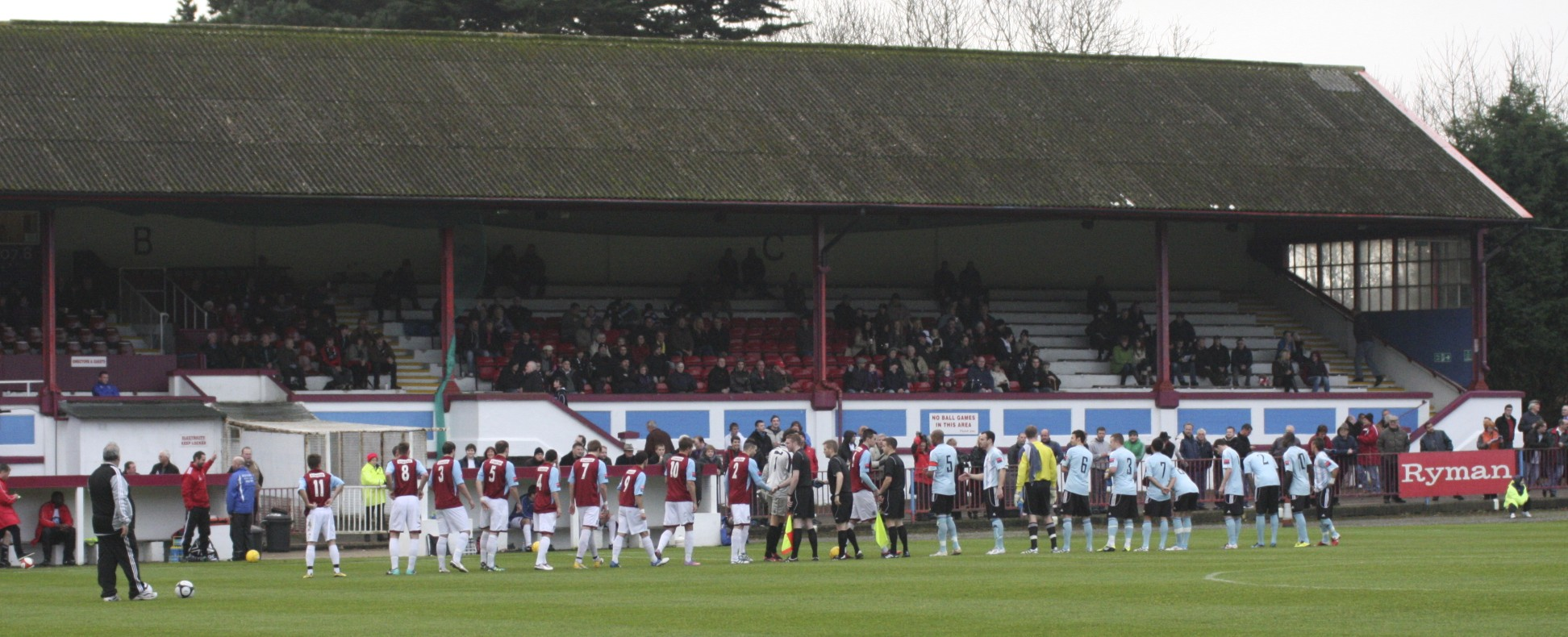 Two teams lining up before game, with Main Stand in the background